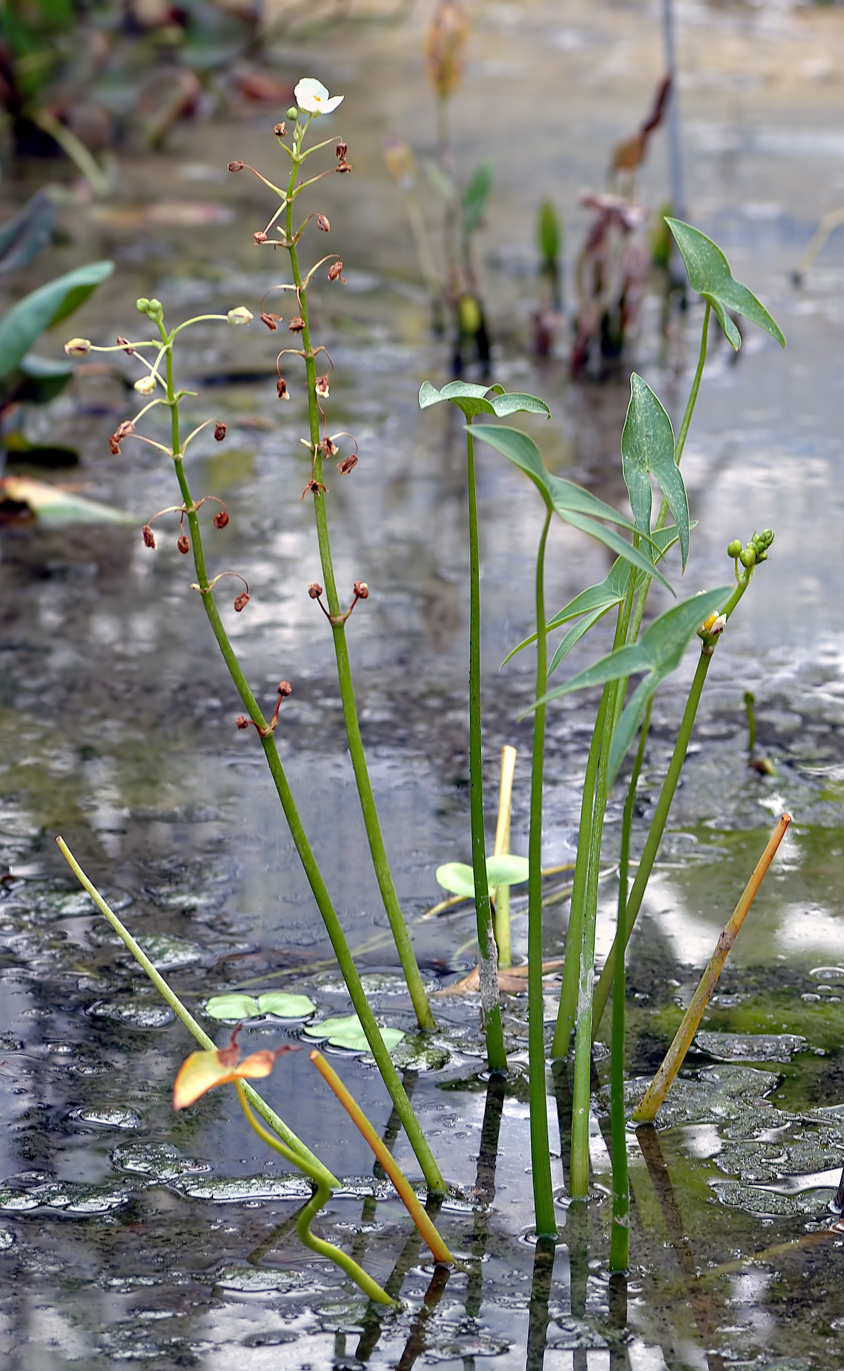 This image shows a plant of the species Giant Arrowhead (Sagittaria montevidensis).